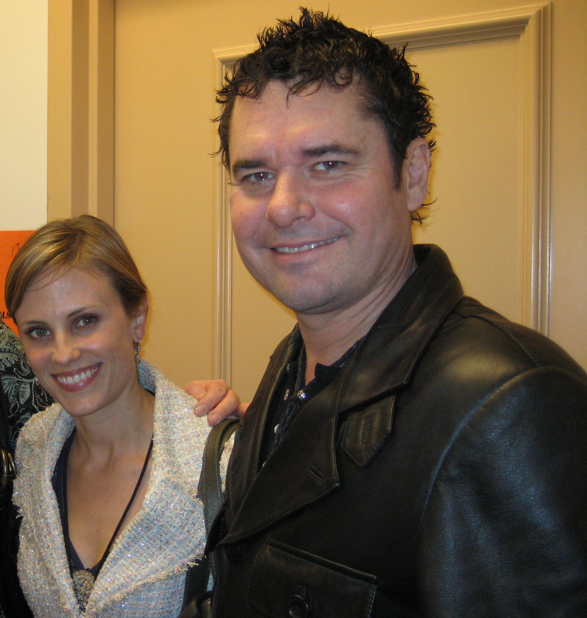 Jon Farriss with wife Kerry Norris